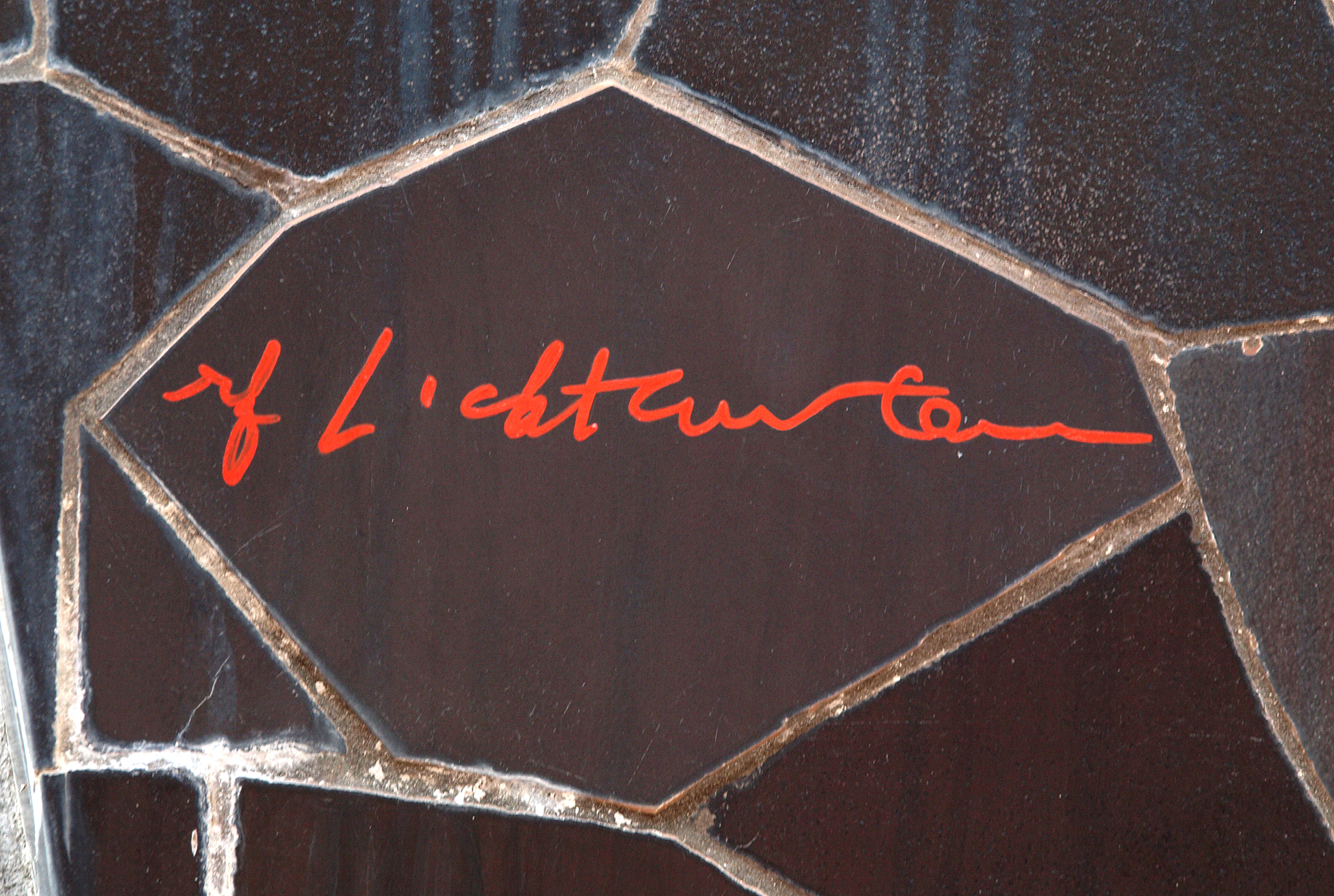 Barcelona's Head, sculpture by Roy Lichtenstein - signature